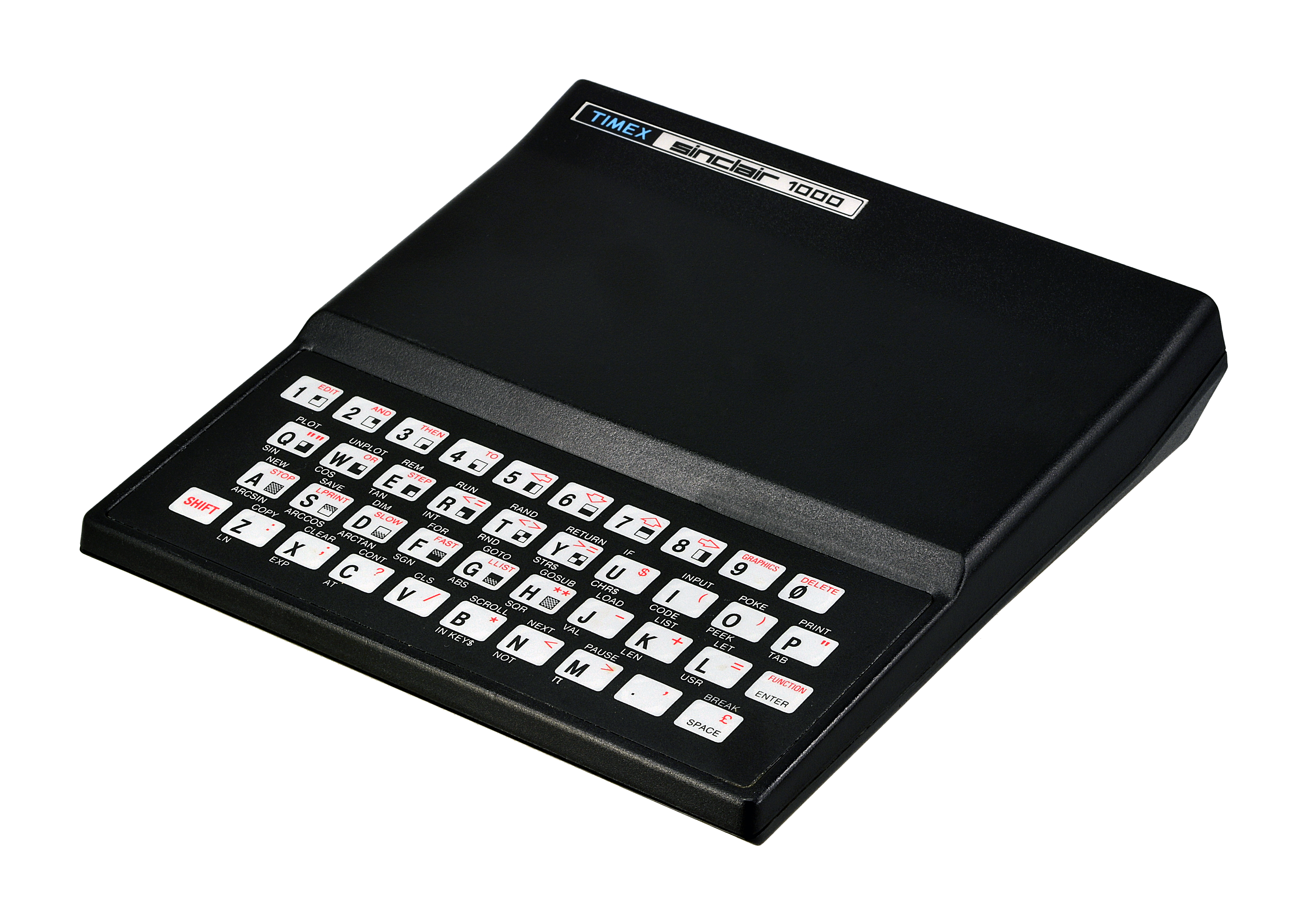 The Timex Sinclair 1000 released in 1982, was the American version of the ZX81, and the first computer to cost under $100. It has black and white graphics and no sound, an integraded membrane keyboard, and an expansion slot. I was followed by the model 1500 in 1983.